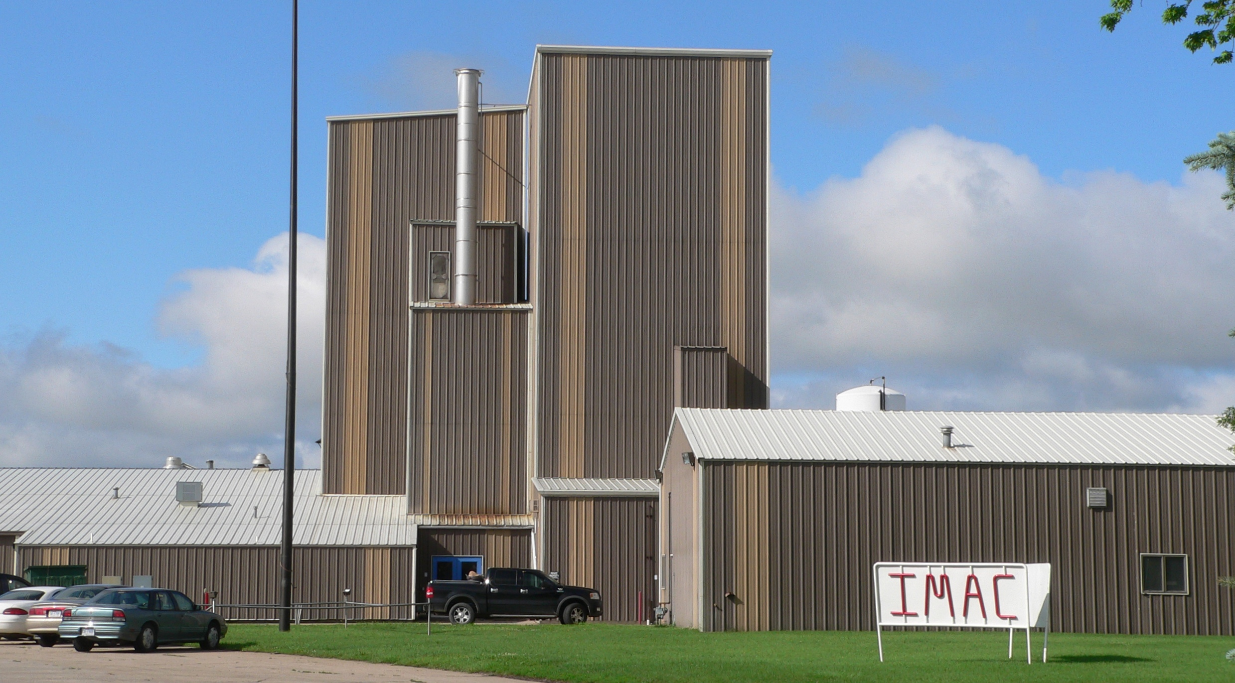 IMAC (International Media and Cultures) plant in Orchard, Nebraska. The plant produces anti-caking agents and starter media for cheese production.